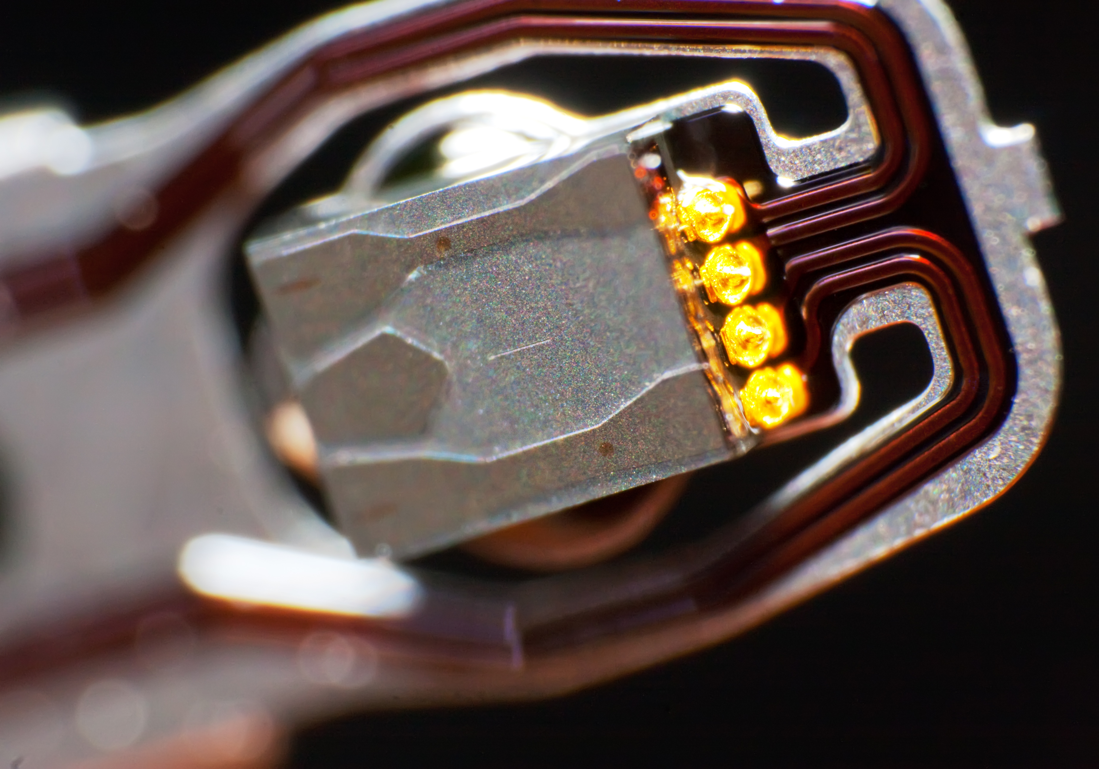 A read/write head from a circa-1998 Fujitsu 3.5" hard disk. The area pictured is approximately 2.0 mm x 3.0mm.